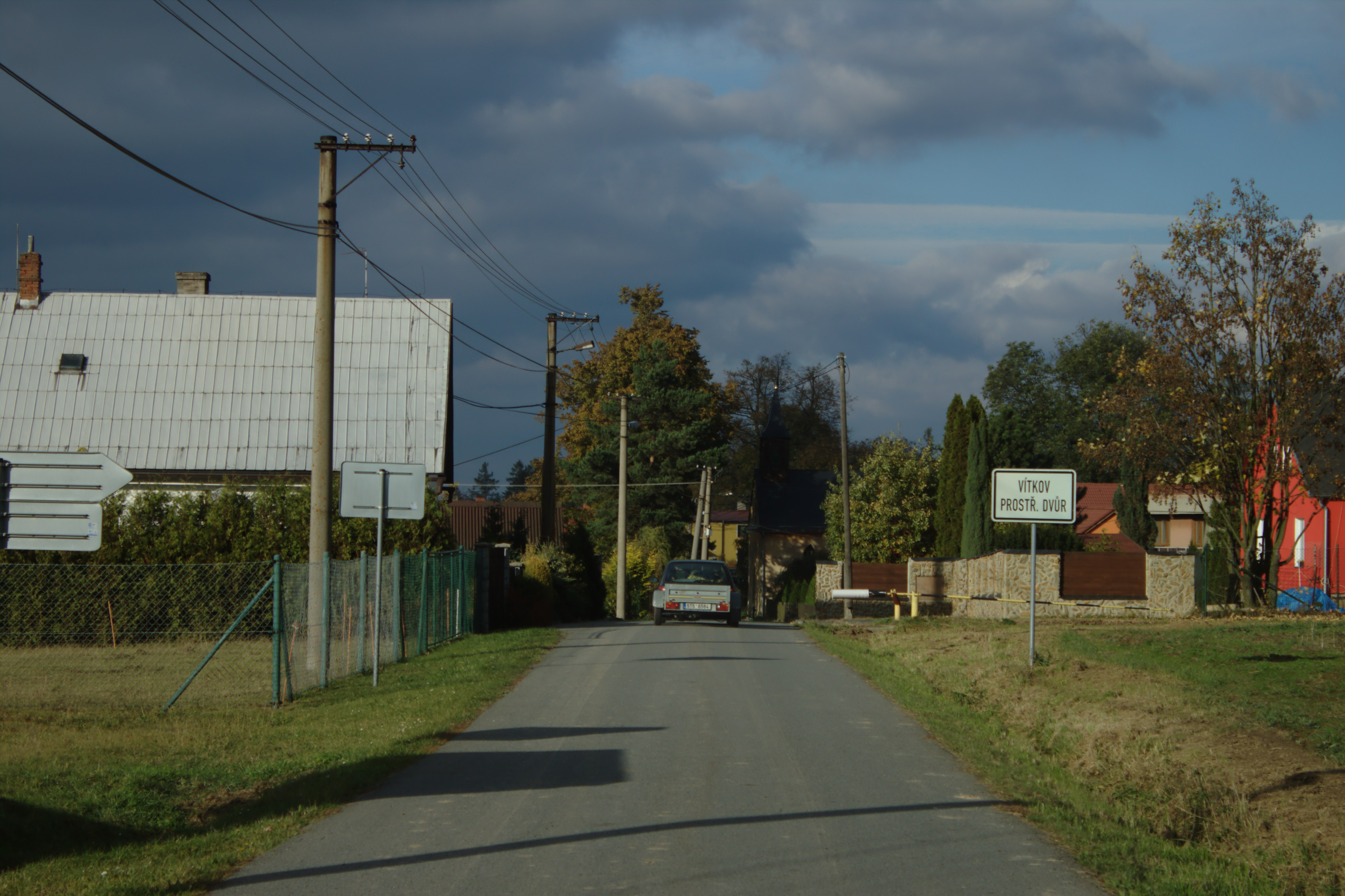 A road to the village of Prostřední Dvůr, situated near Vítkov, CZ